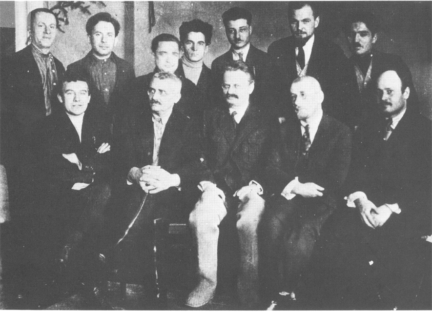 Trotsky's Left Oppostion, Moscow 1927. Bottom row, left to right: Istchenko, I. Smirnov, Trotsky, I. Smilga, Alsky. Standing directly behind Trotsky is B. Eltsin, last on right: Ter-Vaganian. Man Nevelson, the husband of Trotsky's daughter Nina, is second from the right (source: David King) or the left .